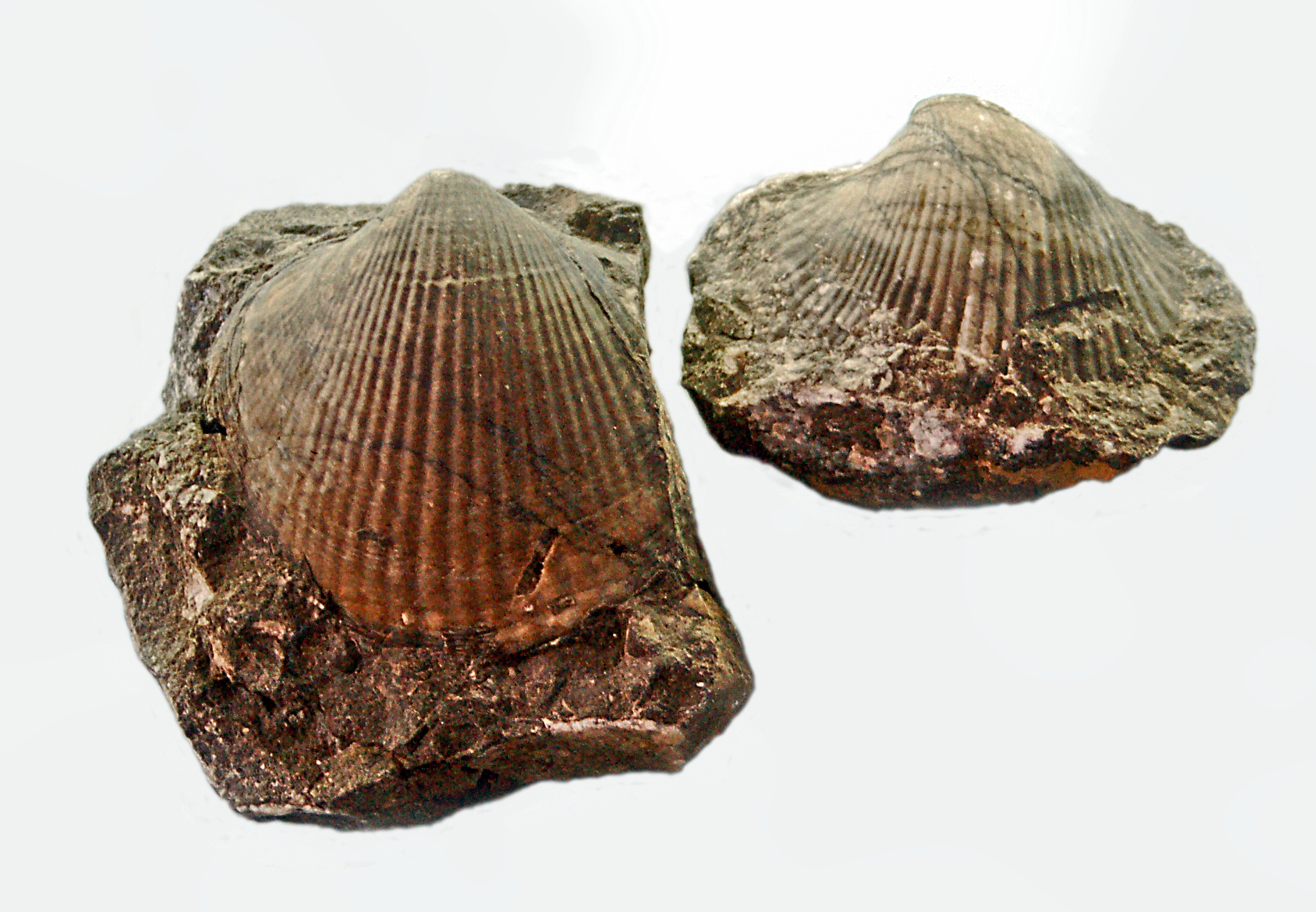 Panenka bohemica from Czech Republic, at the National Museum (Prague)